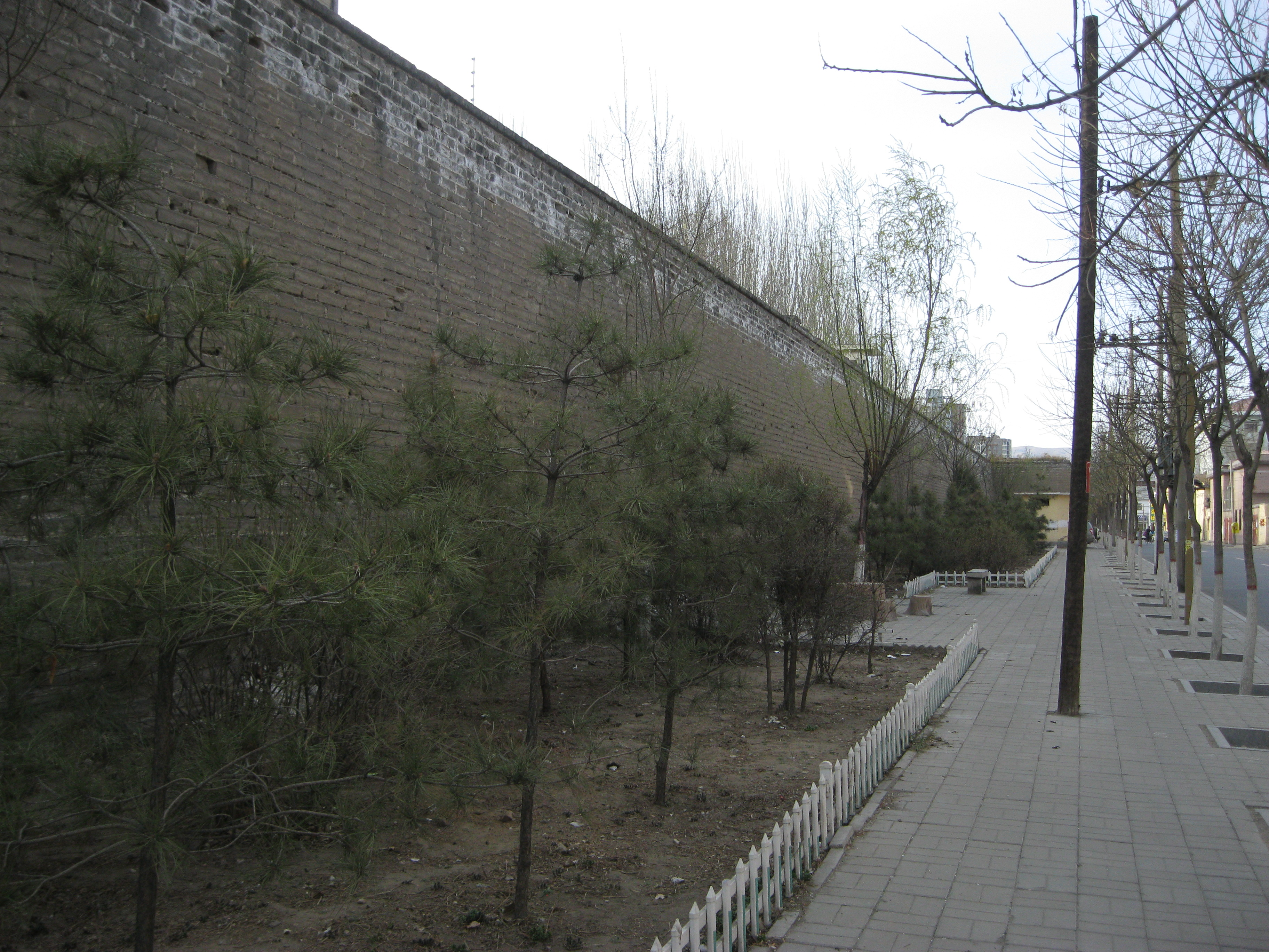 The remaining east wall of Suiyuan